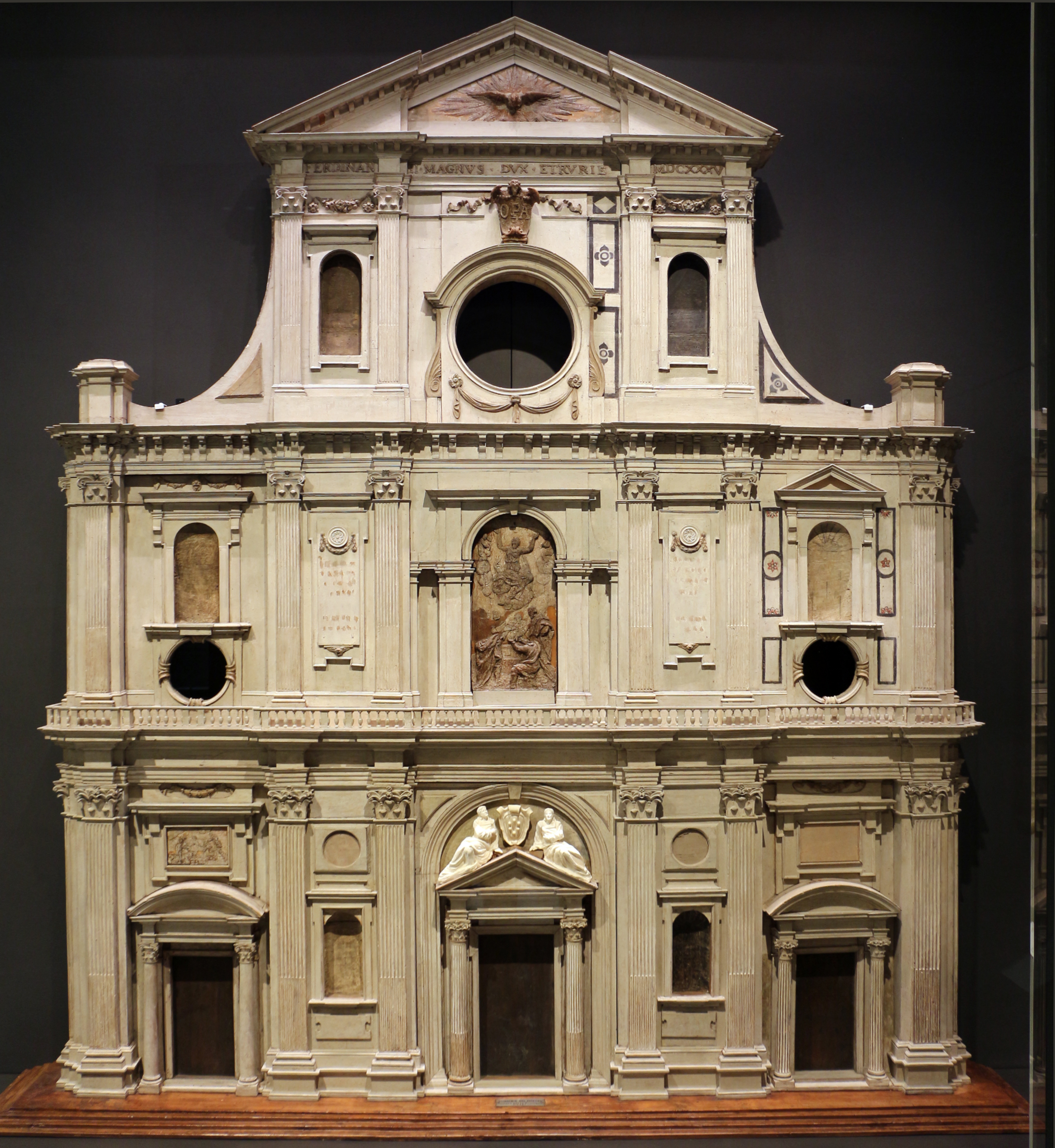 Museo dell'Opera del Duomo (Florence) - Projects for the Duomo